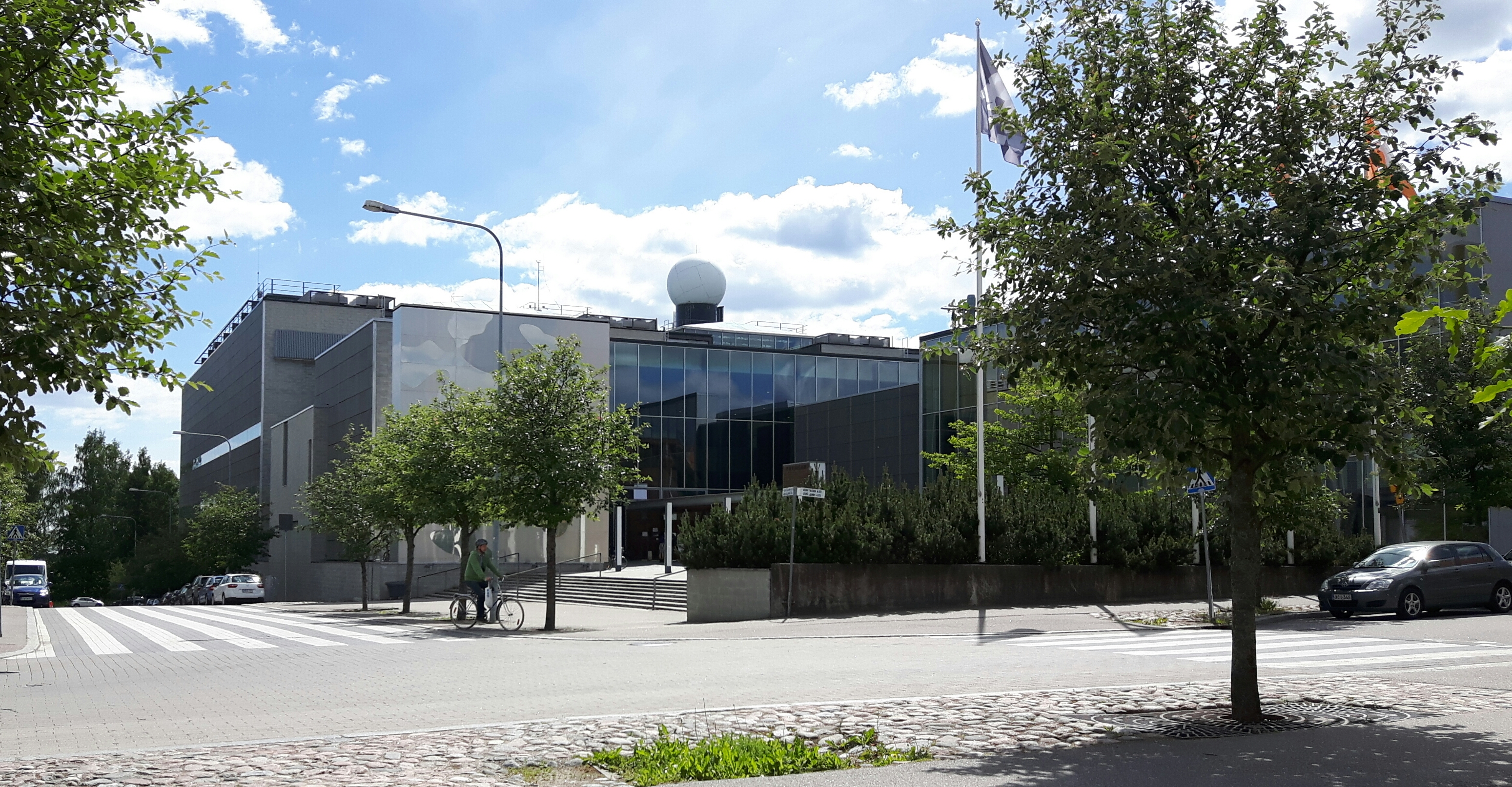 Physicum, Kumpula Science Campus, University of Helsinki. Visible: front entrance, artwork, weather radar, part of the campus library